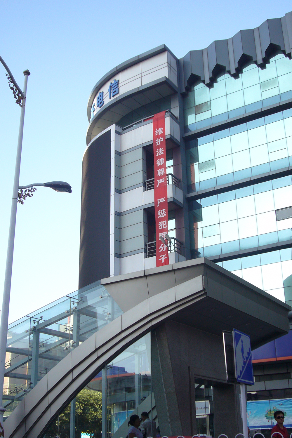 A shot of cityscape of Urumqi in August 2009, a month after the July 5th riots. The red vertical banner on the building in the distance says: "Uphold the sanctity of the law, and severely punish the criminals"